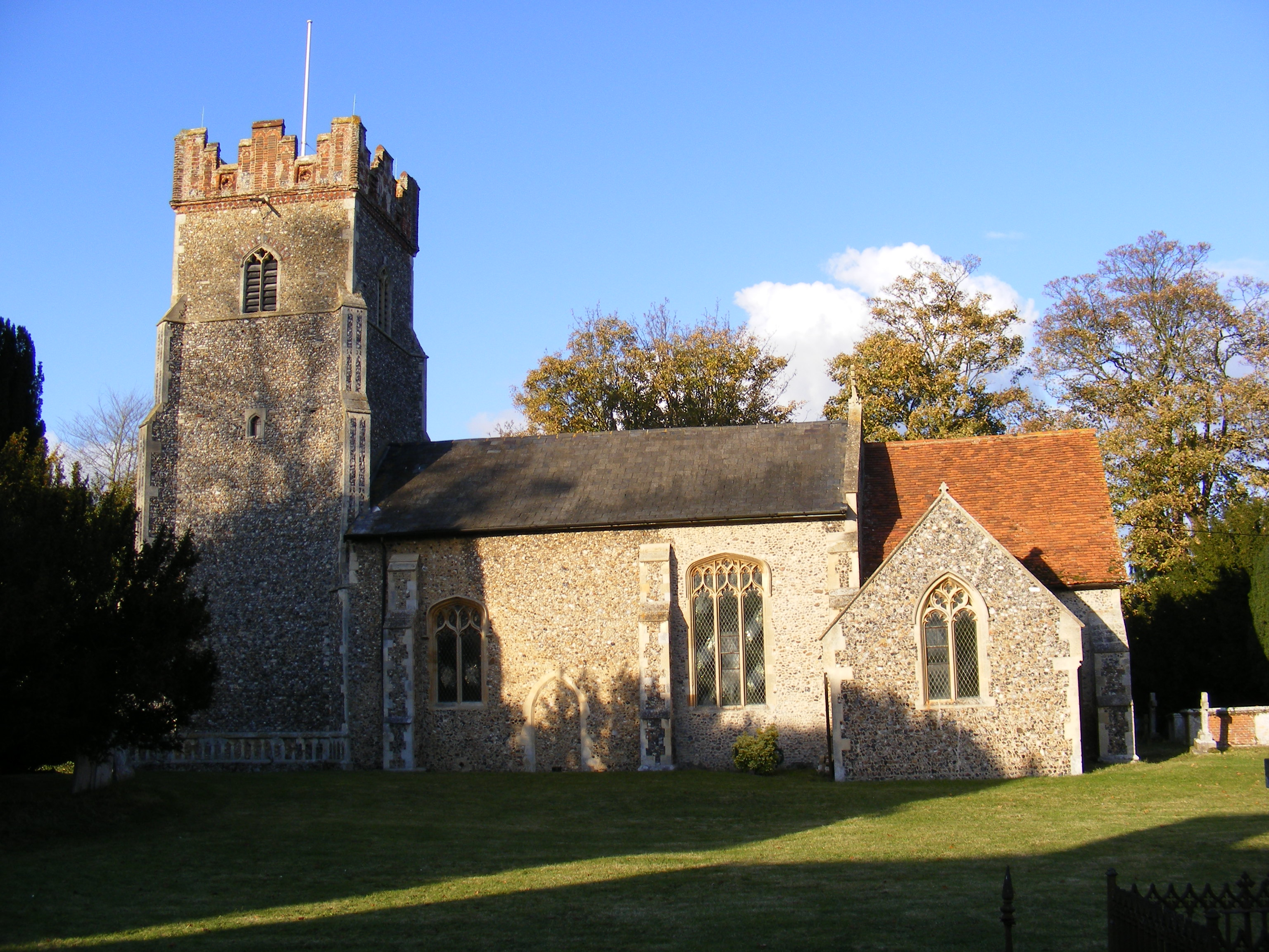 St.Andrews Church, Bredfield